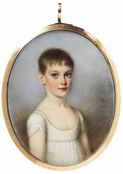 Thomas Hazlehurst, Worked 1760-1818, Portrait of an Unknown Boy, About 1800, Watercolour on ivory, Signed lower right, ‘T.H.’ in monogram Museum no. Evans 133 Alan Evans Bequest, given by the National Gallery The sitter has traditionally been called ‘The Right Honourable J. A. Plantagenet Stewart’.